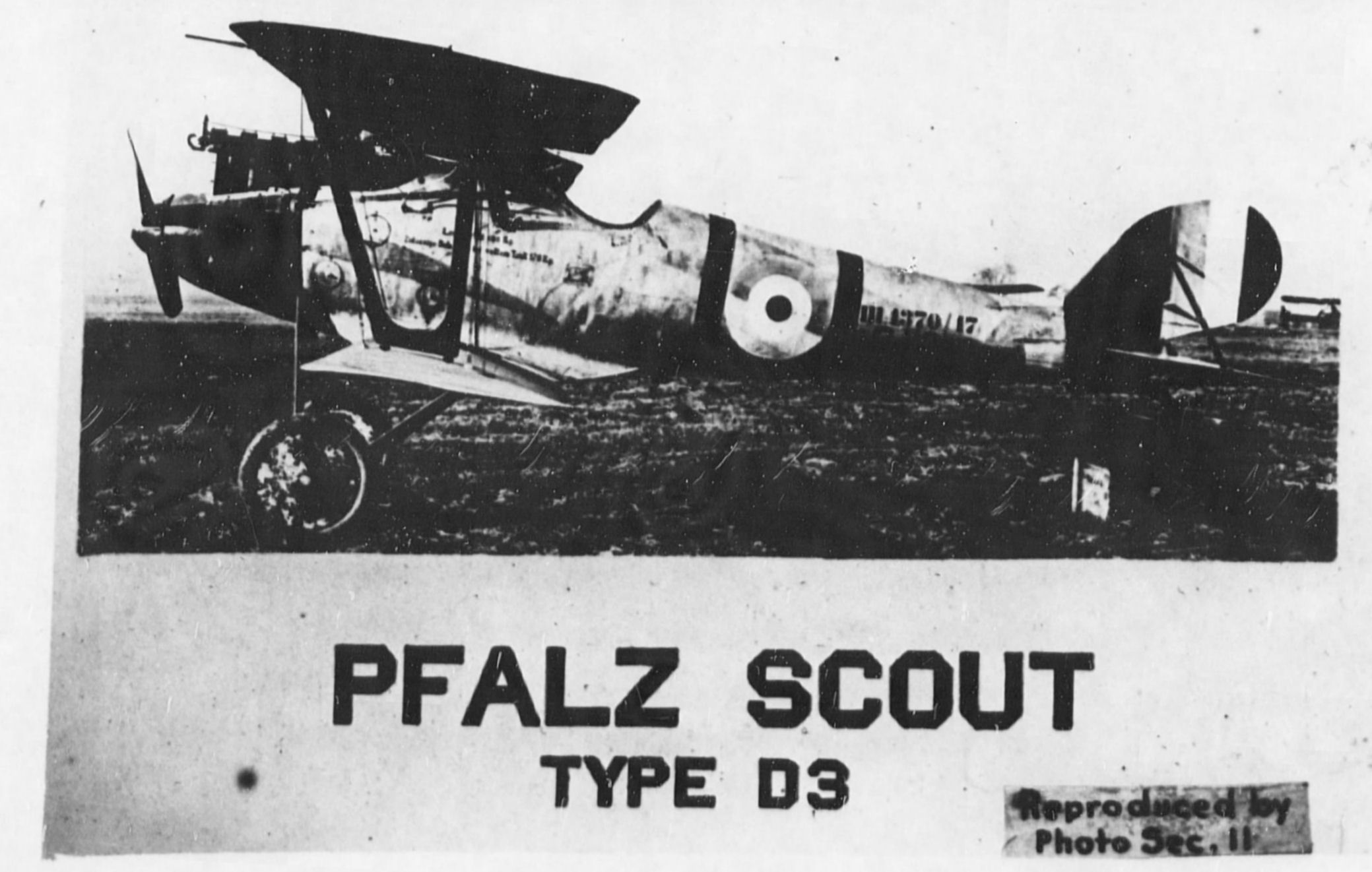 Captured Third Army German Pfalz D.III, taken at Coblenz Aerodrome, Germany